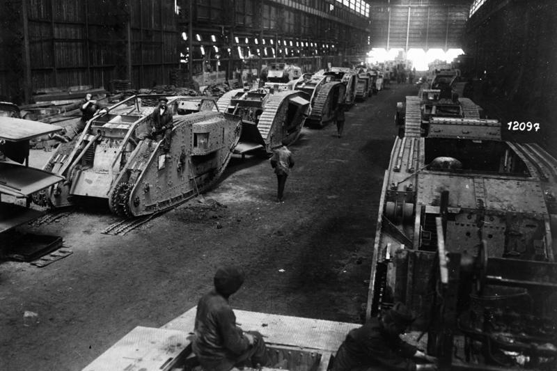 german vehicle repairshop for captured tanks, run by a bavarian unit near Charleroi, captured british tanks, 1918